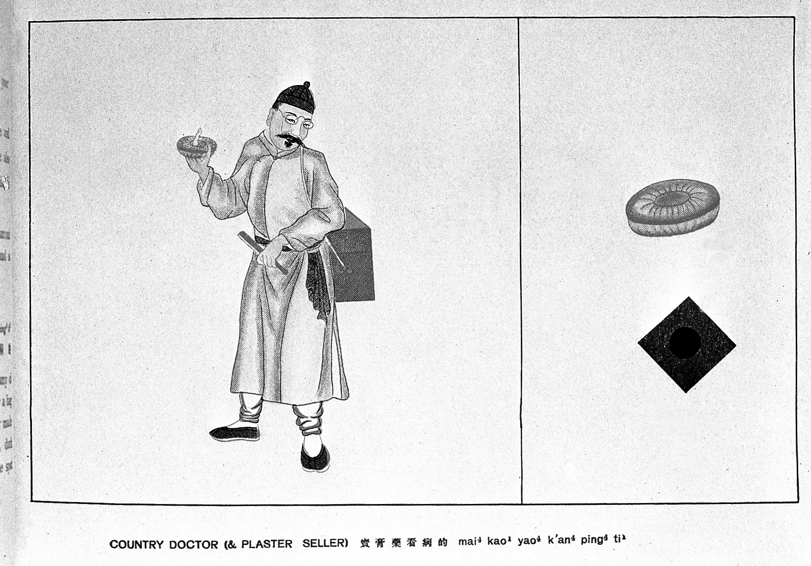 Chinese country doctor and plaster seller. Wellcome Images